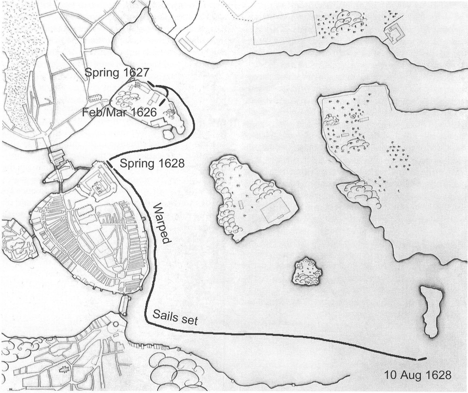 The course of Vasa from when she was built to her foundering and sinking on her maiden voyage drawn on a map of Stockholm in the early 17th century.